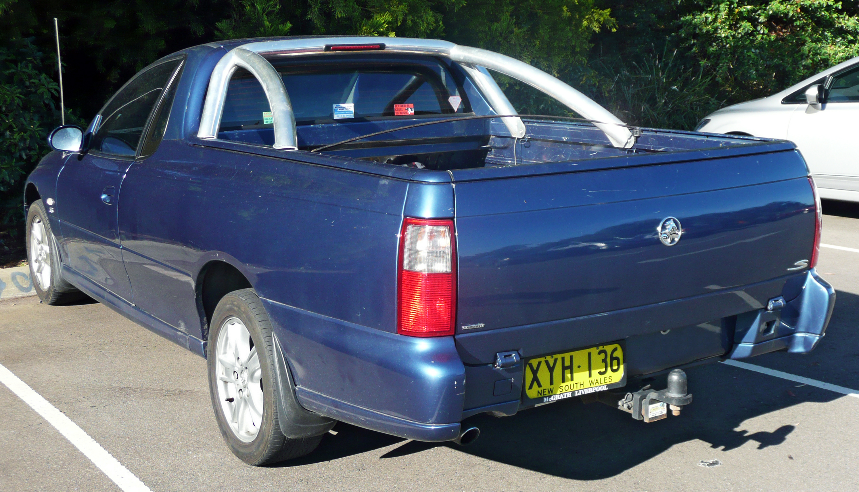 2001–2002 Holden VU II Ute S. Photographed in Kirrawee, New South Wales, Australia.